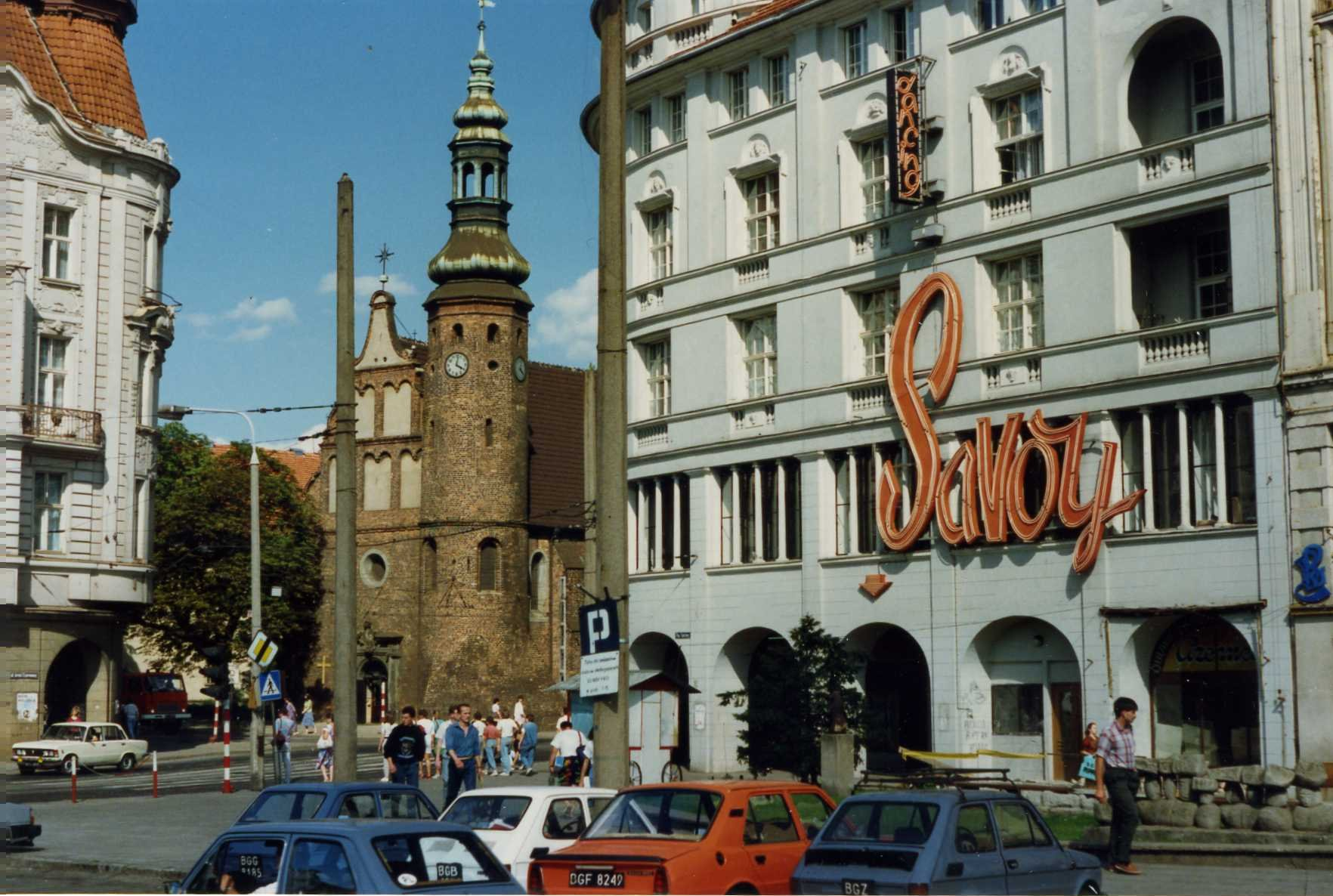 Parking lot in front of the Savoy dancing club in Bydgoszcz, August 1990.